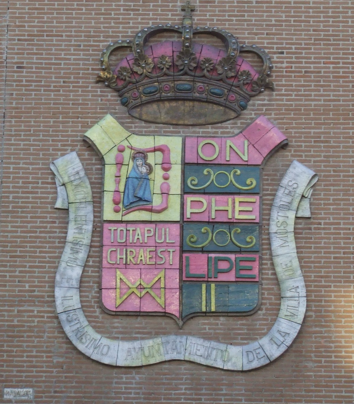 Móstoles is an autonomous community of the city Madrid in Spain.